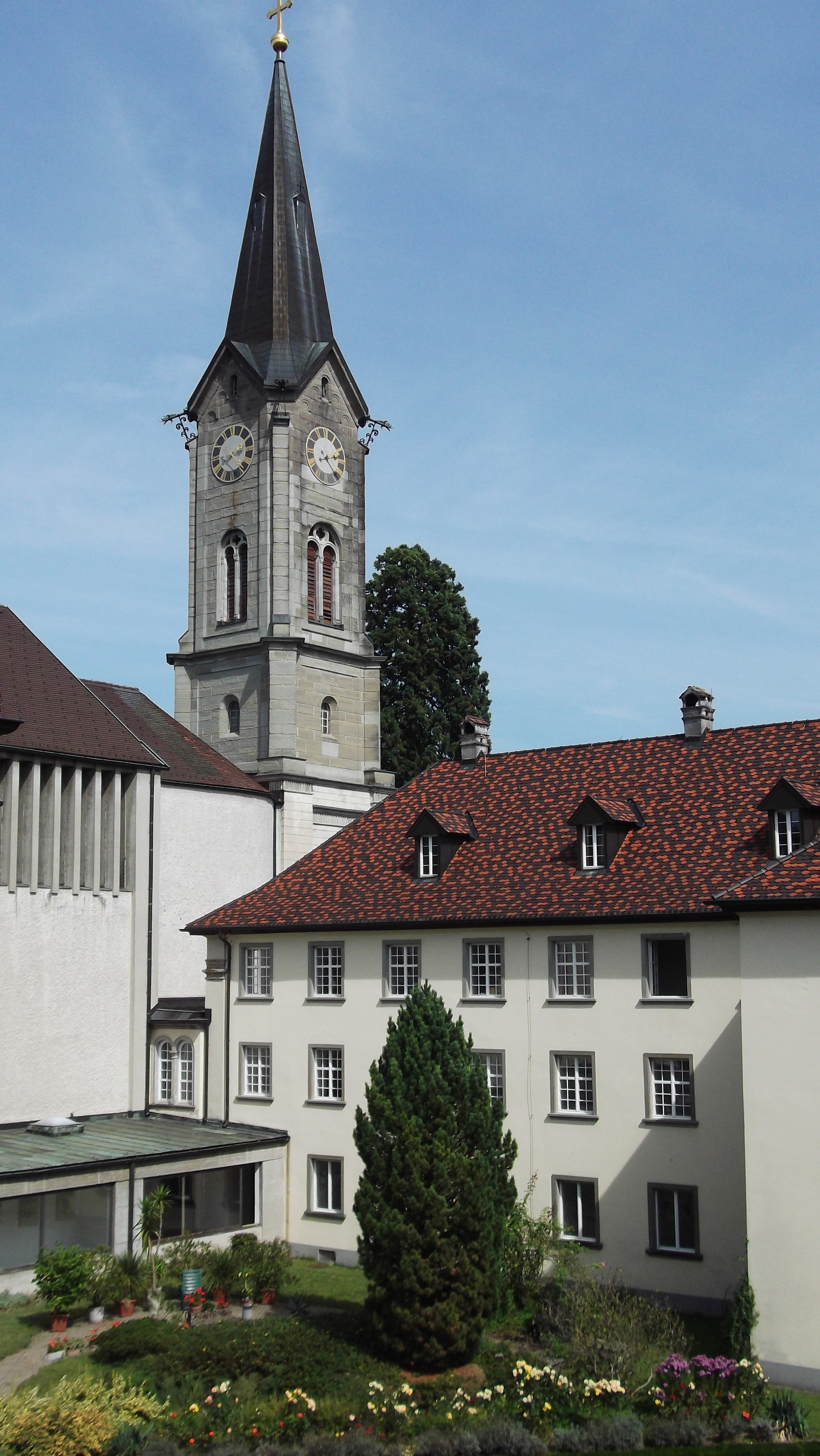 Patio of the Abbey Wettingen-Mehrerau in Bregenz, Austria